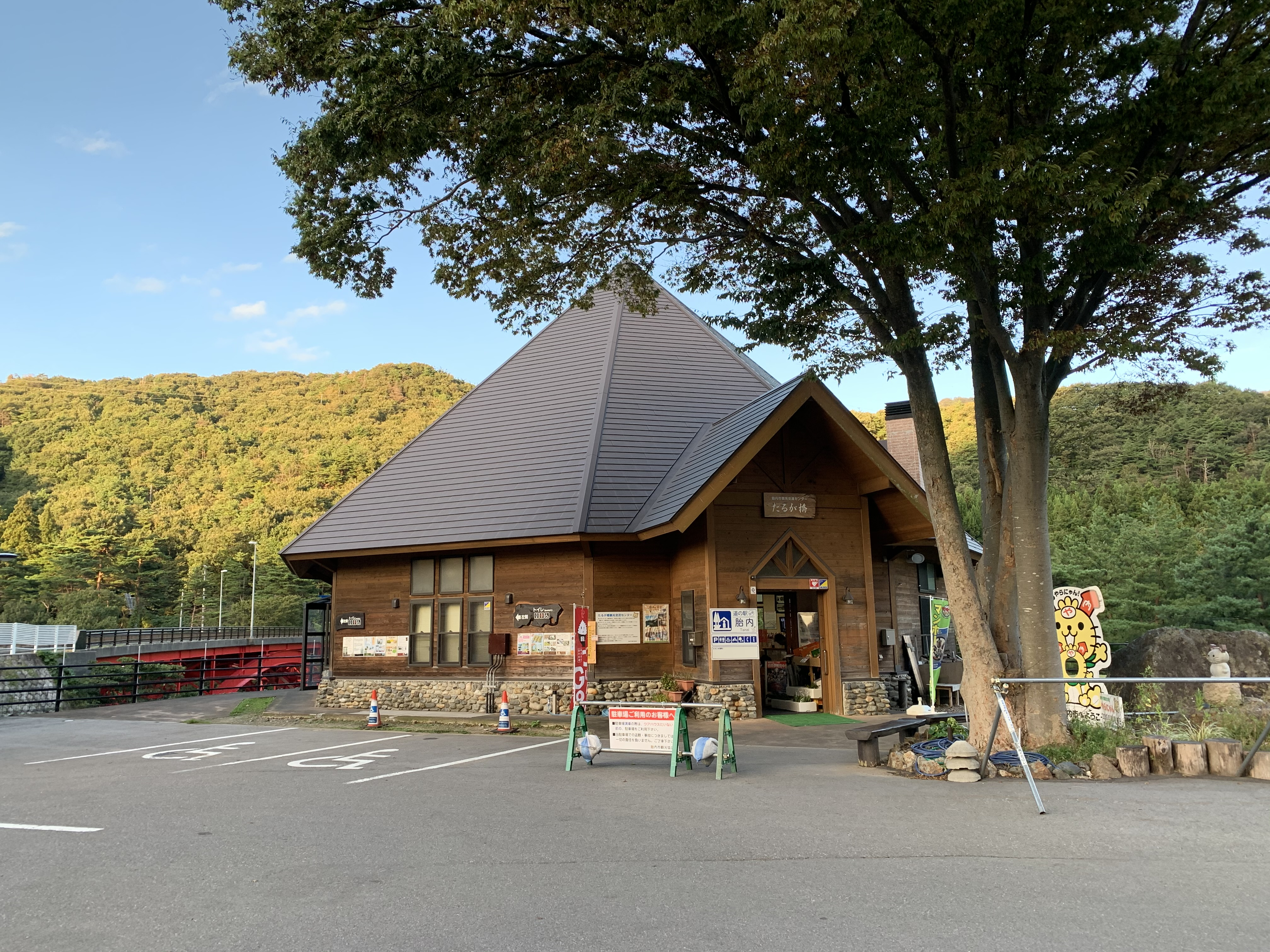 Tainai, Michi no Eki (Roadside Station), Niigata, Japan. Took photo in October 2019.